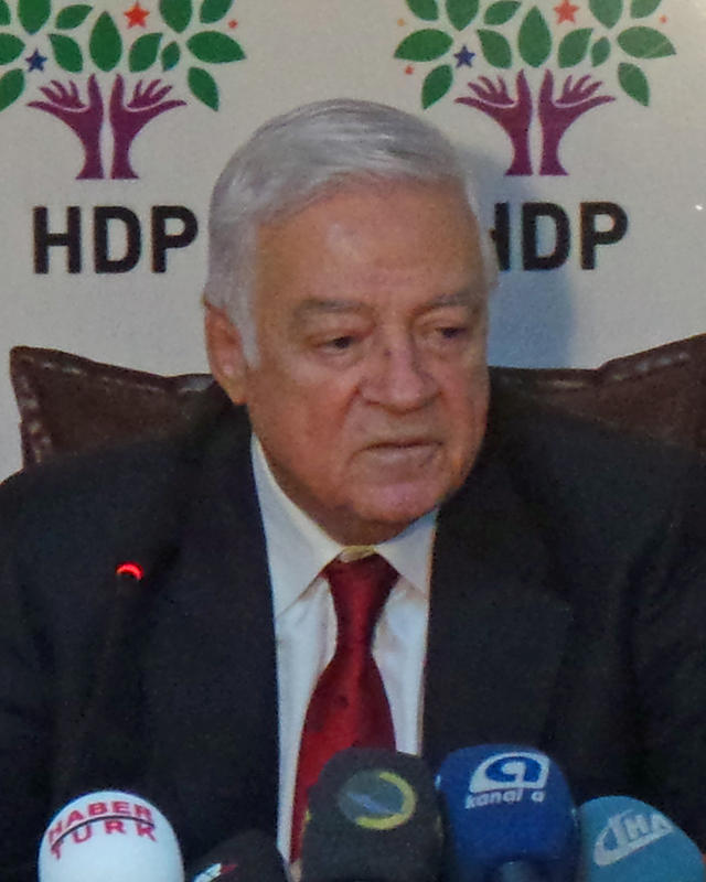 Dengir Mir Mehmet Fırat in 2015 March